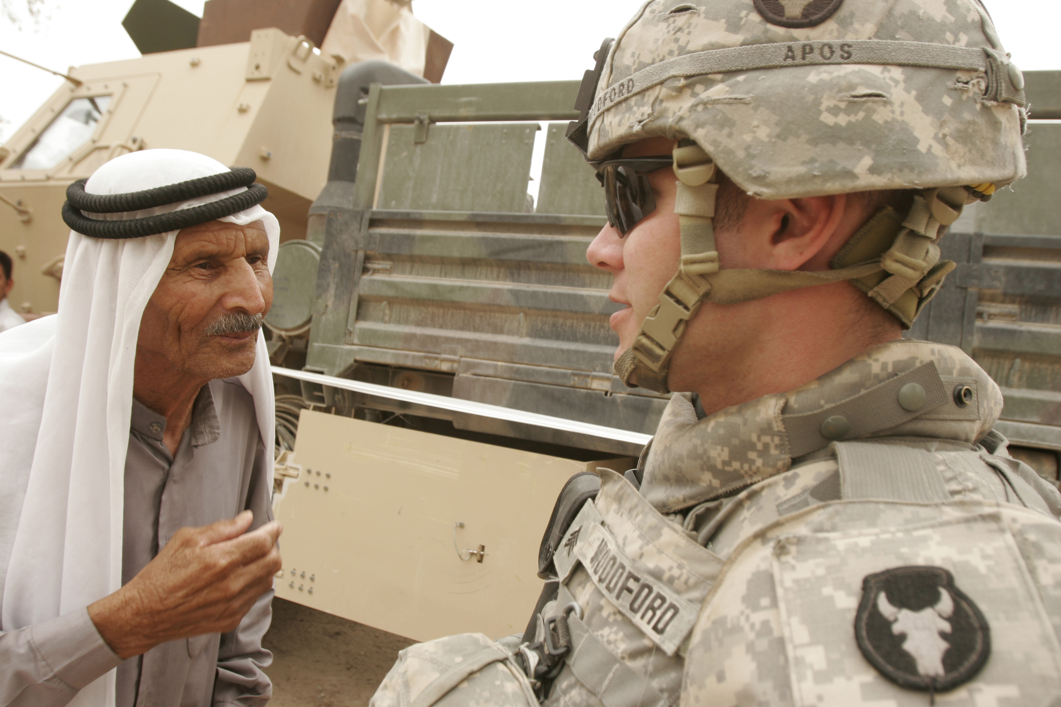 AL MADINAH, Iraq, Army Sergeant Jeff Woodford, a native of Walker, Minnesota, speaks to an Iraqi civilian waiting for medical care on May 16, 2007. Citizens of Al Madinah As Siyahiyah take advantage of the medical care being provided by soldiers from 1st Iraqi Army Division running a Cooperative Medical Engagement (CME) with the help of Able Company, 2nd Combined Arms Battalion of the 136th Infantry Regiment, 1st Brigade Combat Team, 34th "Red Bull" Infantry Division. Sgt Woodford is a medic with A. co., 2-136th CAB, Minnesota National Guard. 2nd MLG is deployed within the Al Anbar province in order to develop the Iraqi Security Forces, facilitate the development of official rule of law through democratic government reforms and continue the development of a market based economy centered on Iraqi reconstruction.